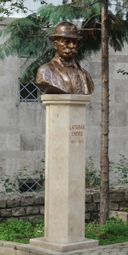 Statue of Endre Latabár (1811–1873), actor, director. Sculptor: Éva Varga